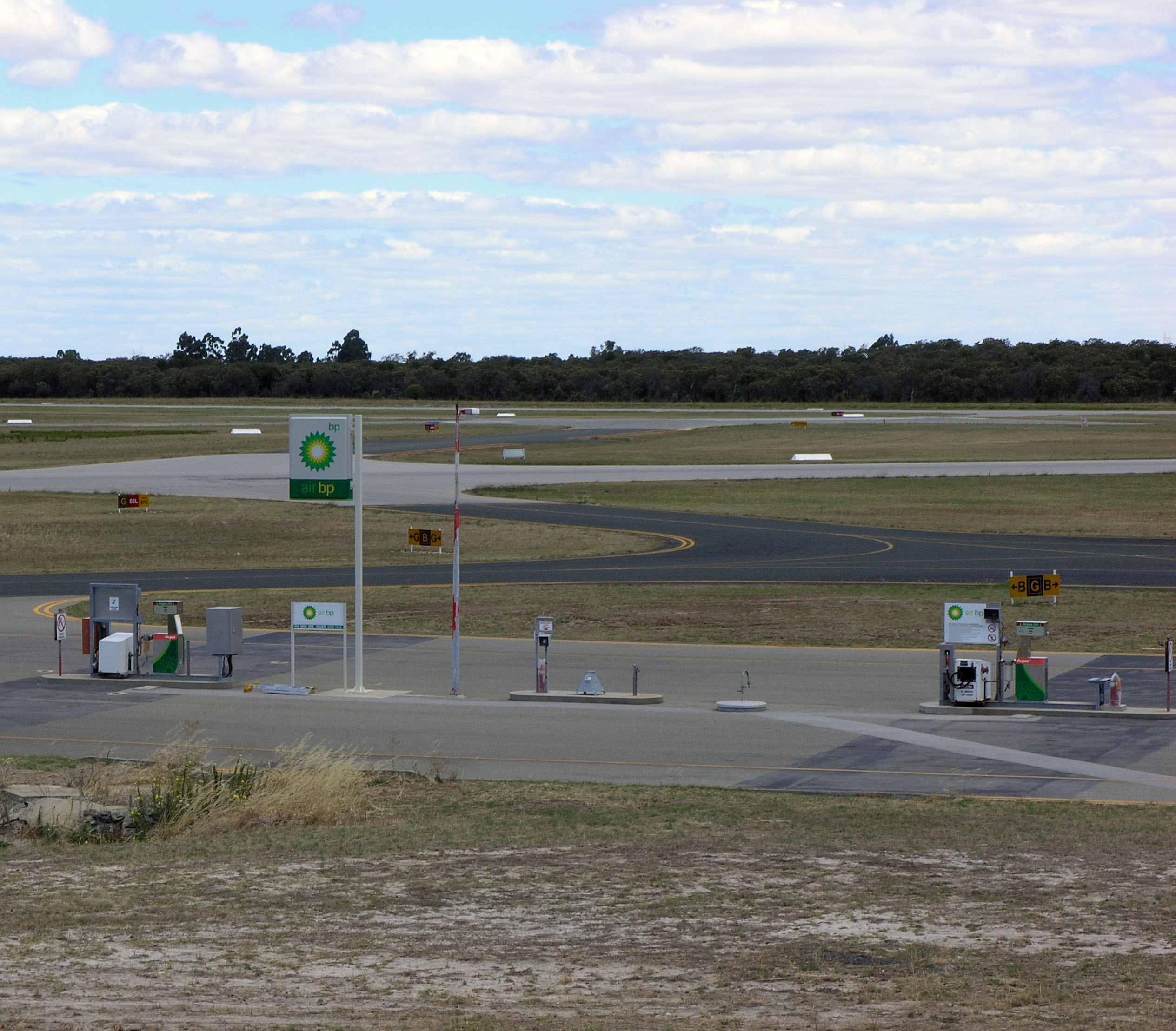 BP fuel station Jandakot airport. Taken by me SeanMack.